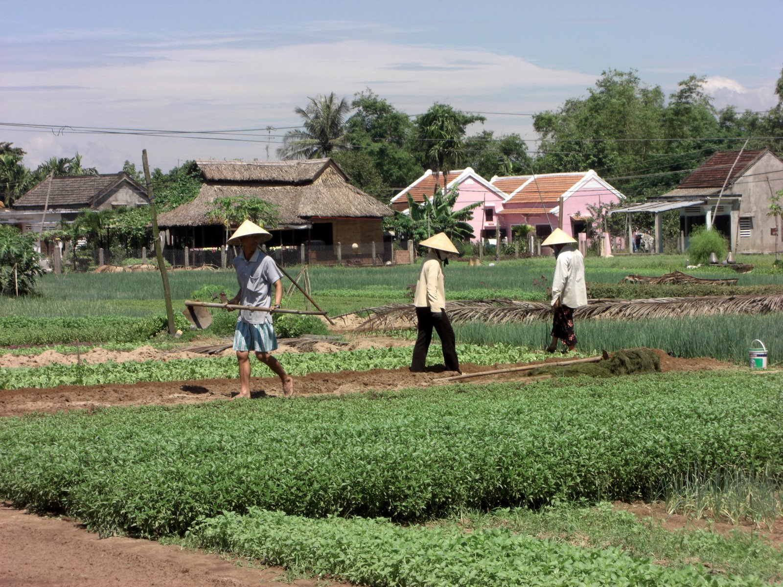 Work in the fields